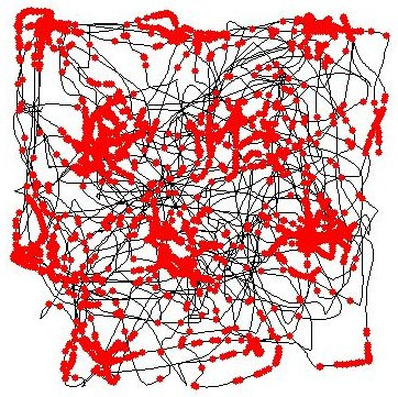 Black line: the running trajectory of the rat. Red dots: every red dot correspond to one spike recorded from a single neuron.